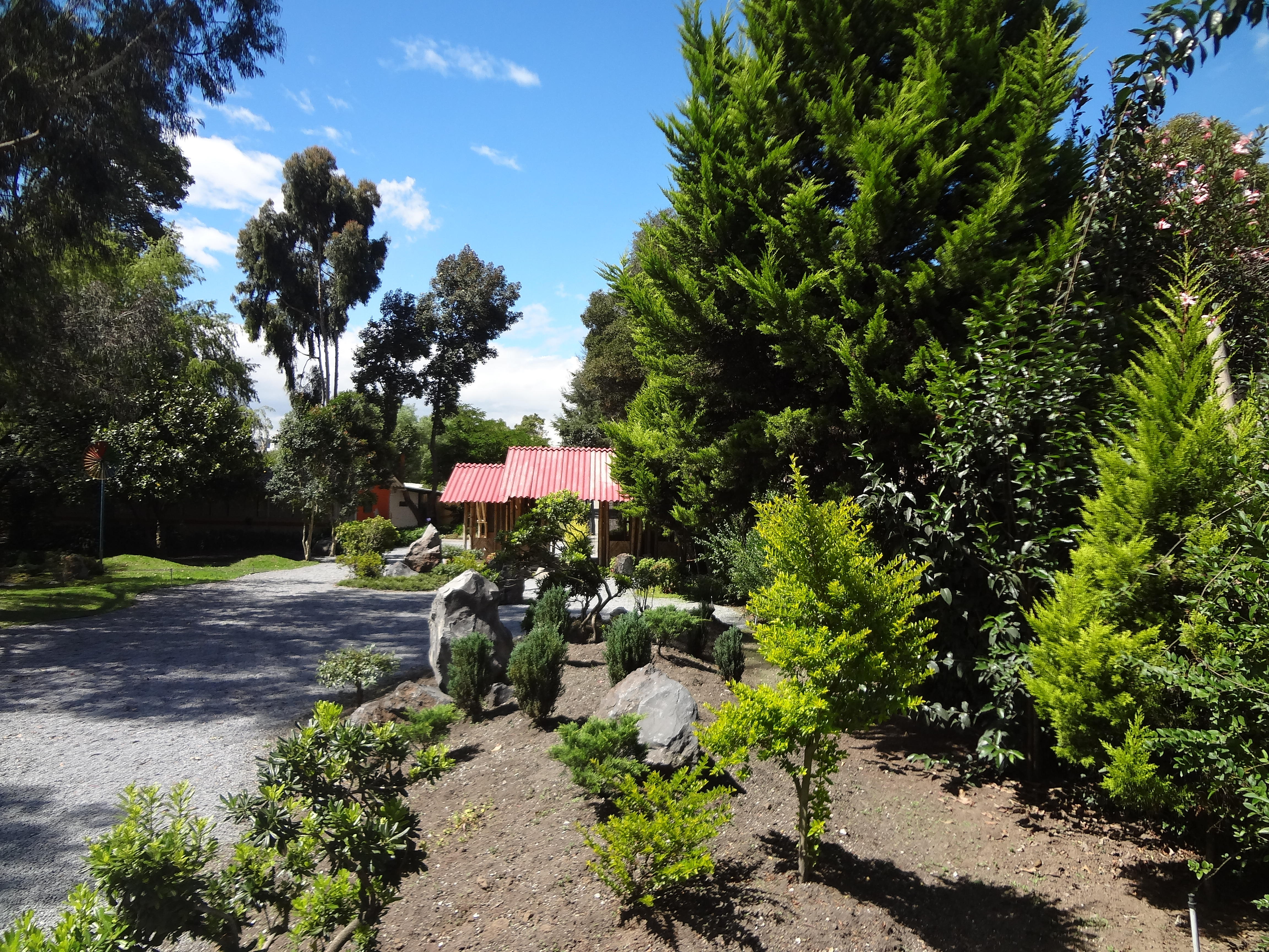 Parque La Carolina